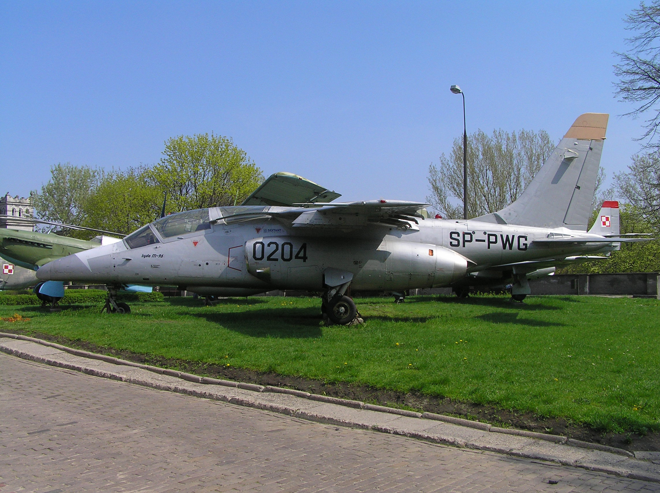 PZL I-22 Iryda - polish light attack and advanced trainer aircraft.